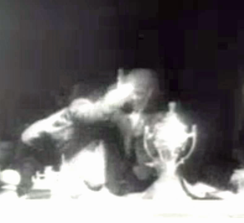 David Pratt is overpowered after he shoots Hendrik Verwoerd